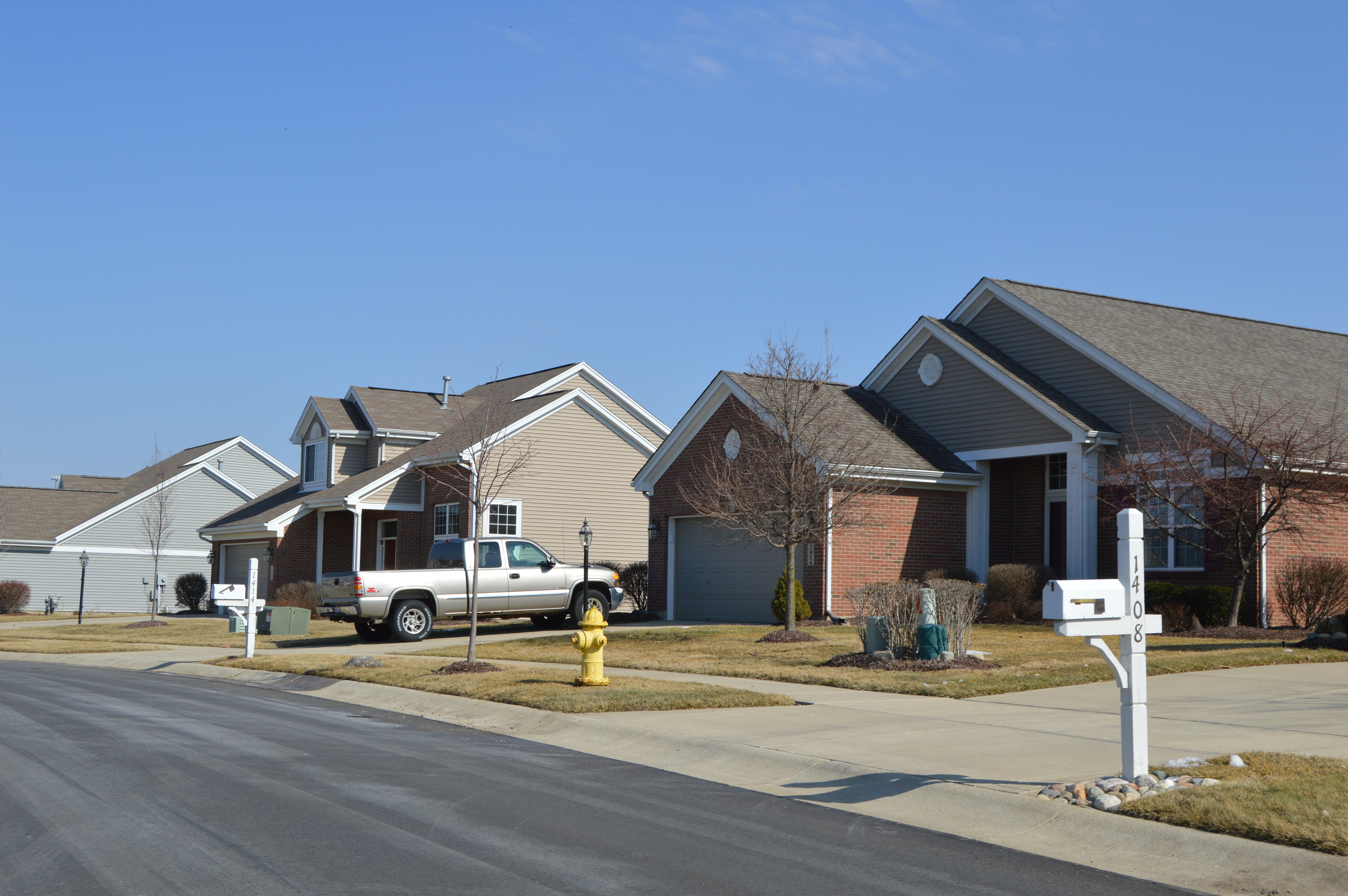 Houses on the eastern side of Highland Lane at Fair Hill Court in eastern Beavercreek Township, Greene County, Ohio, United States.